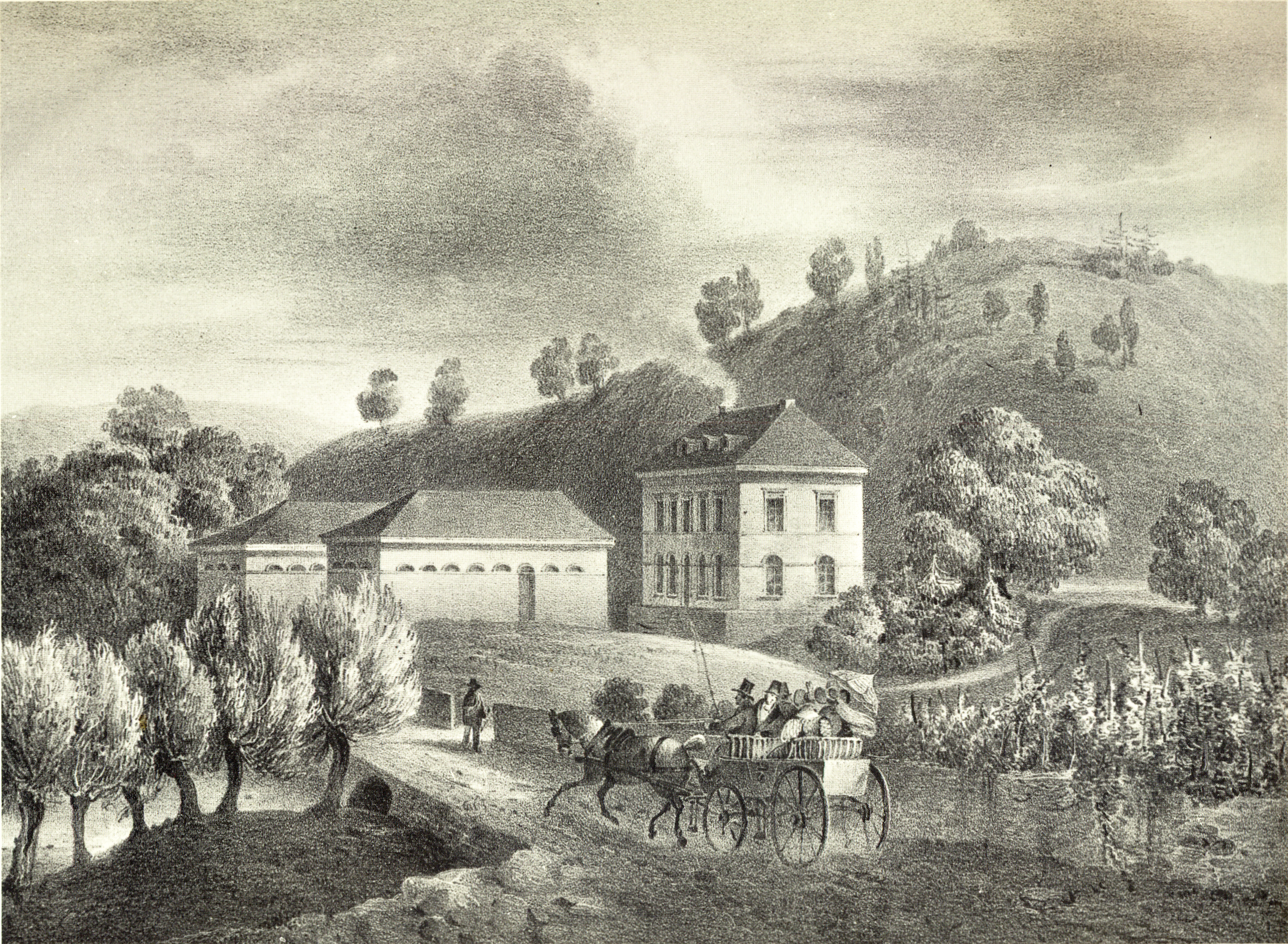 Wine pavillon in Dreiborn, Luxembourg. Drawing.